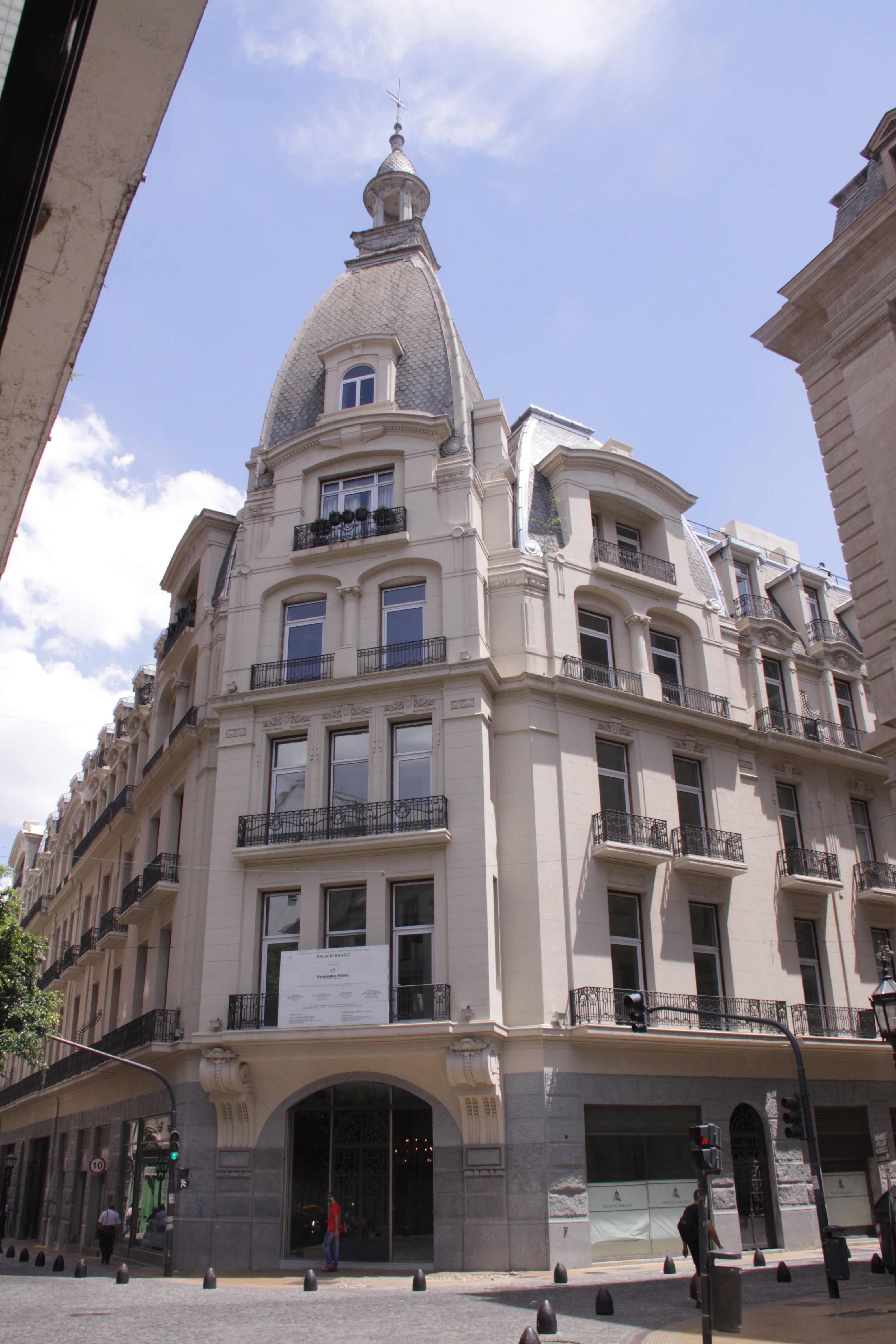 The Raggio Palace building, located on Bolívar and Moreno streets in the Monserrat section of Buenos Aires. Designed by Swiss-Argentine architect Lorenzo Siegerist, the building was completed in 1910 and refurbished in 2015.